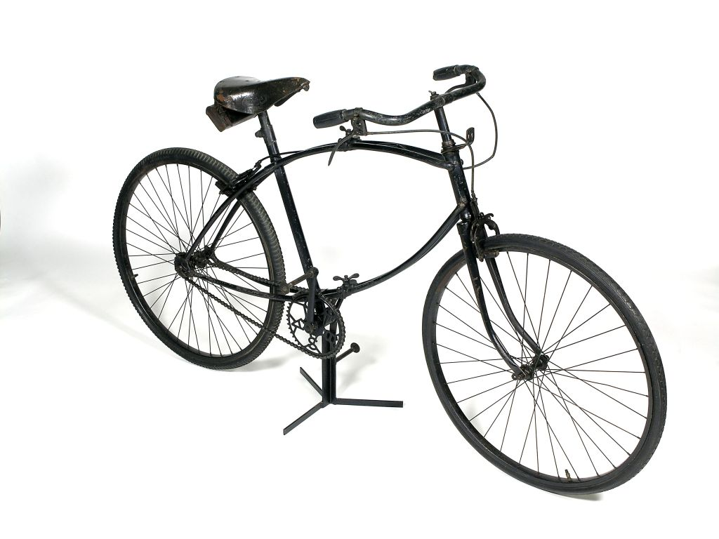 BSA Parachute Bicycle. W.W.2. Vintage, folding. Leather satchel behind saddle. Editing Undertaken: Levels, Unsharp Mask